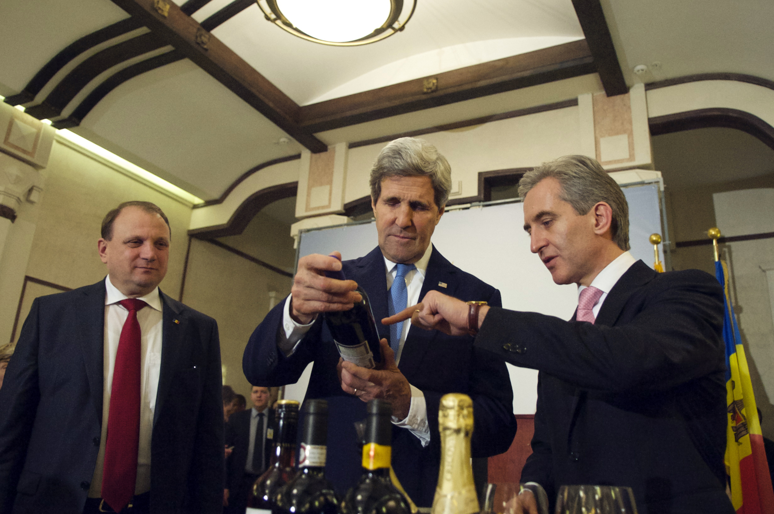 Moldovan Prime Minister Lurie Leanca, right, points out the label of a local wine after he and U.S. Secretary of State John Kerry sampled some local vintages during an economic development event at the Cricova Winery outside Chisinau, Moldova, on December 4, 2013. [State Department photo/ Public Domain]